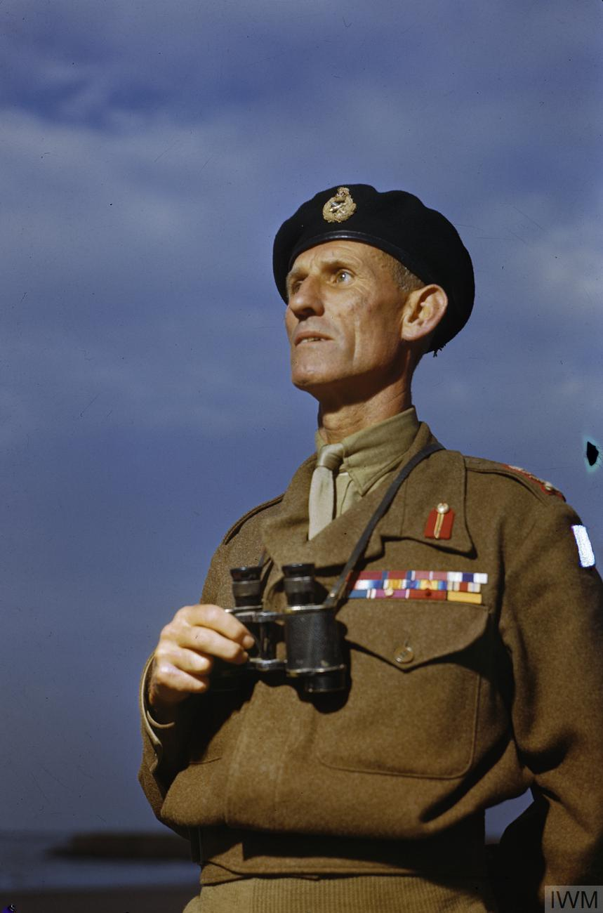 New Eighth Army Commander at Tac Eighth Army Headquarters, Italy, 1 October 1944 Lieutenant General Sir Richard McCreery, KCB, CBE, DSO, MC, ex-Commander 10 Corps, with binoculars on the day that he took over command of the Eighth Army from Lieutenant General Sir Oliver Leese.